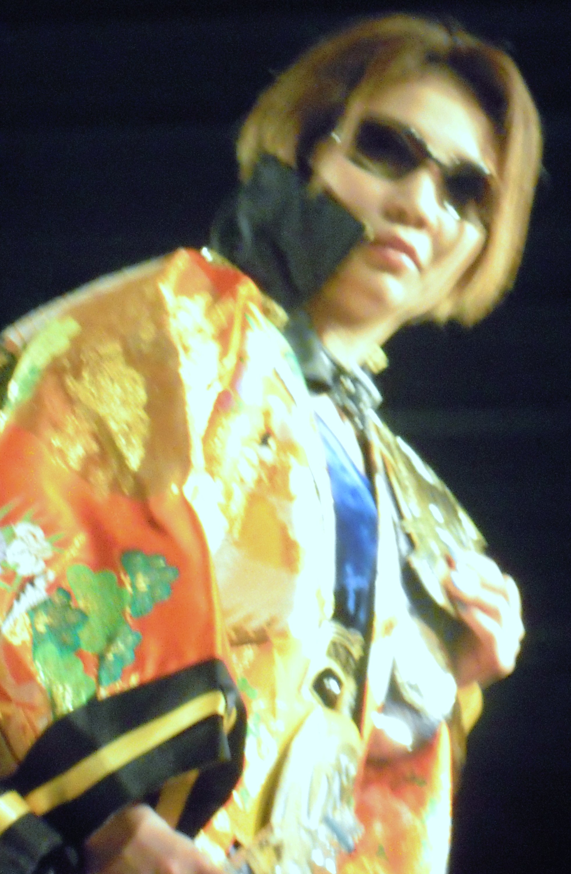 Japanese professional wrestler,Yoshiko Tamura.Mar 21 2010,Ice Ribbon.